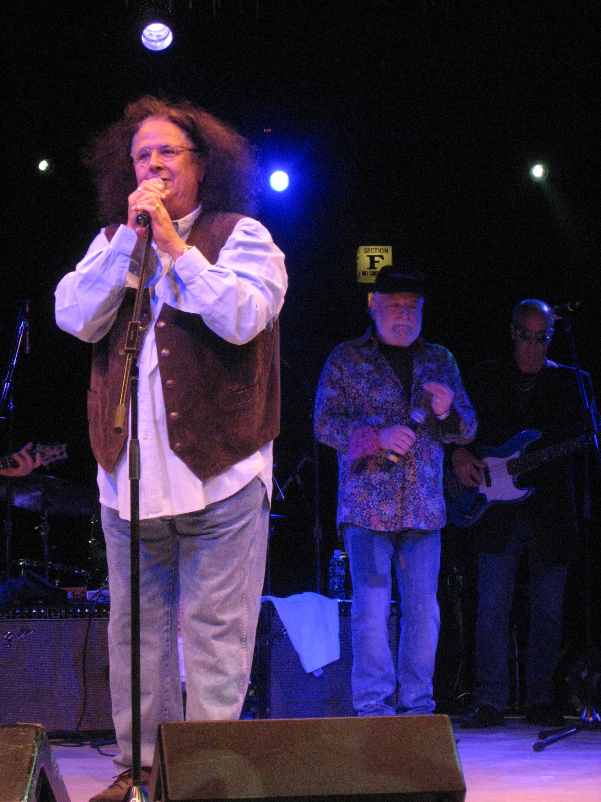 Mark Volman, left front and Howard Kaylan right, rear, in Westbury, NY, performing as Flo & Eddie. "Flo" aka "Phlorescent Leech" and "Eddie" are a comedic musical duo.